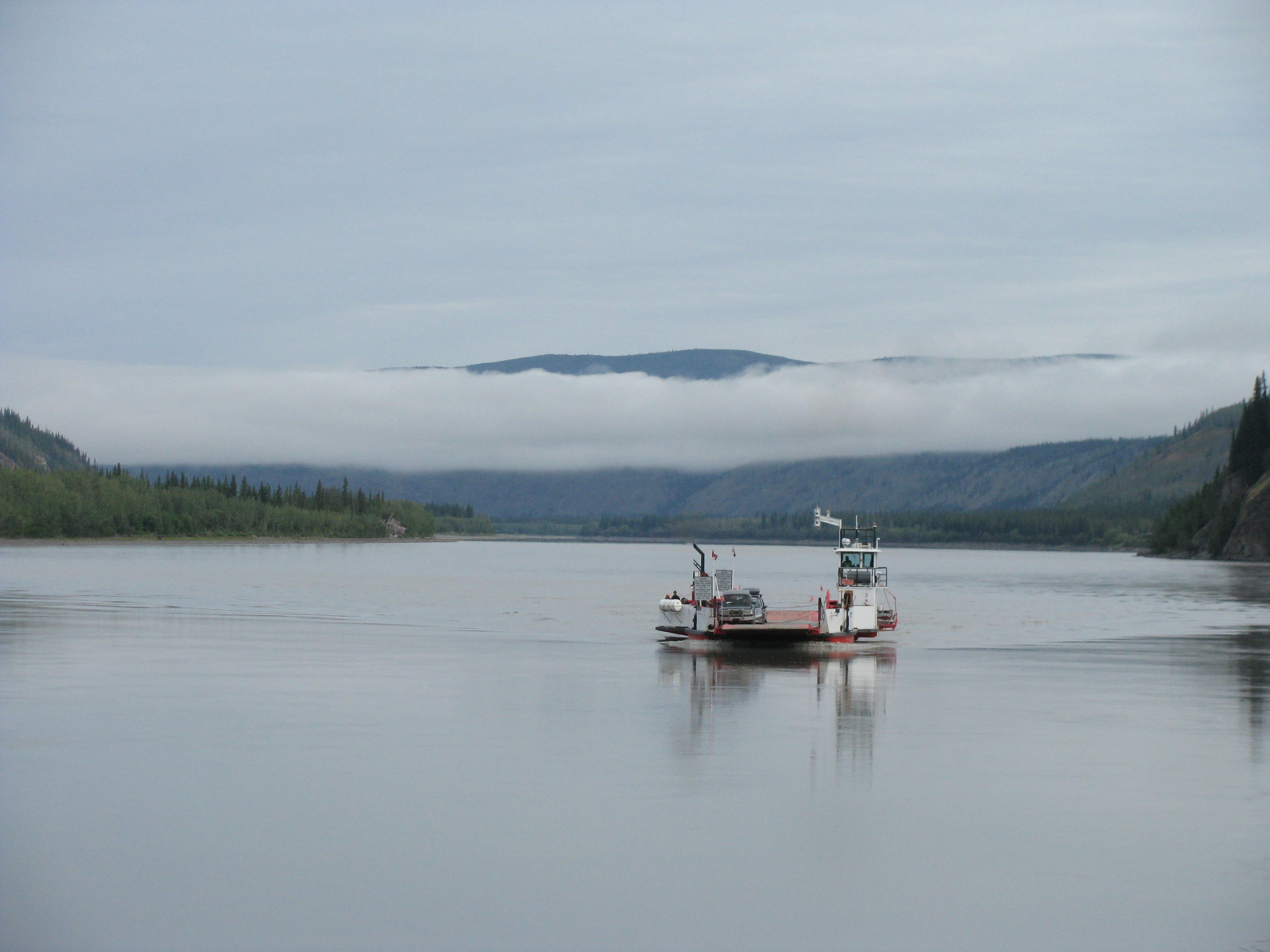 The following is the author's description of the photograph quoted directly from the photograph's Flickr page."Ferry crossing Yukon River, Dawson City, Yukon, Canada. Photographed on 13 August 2009.Joint ©© Arthur D. Chapman and Audrey Bendus. "